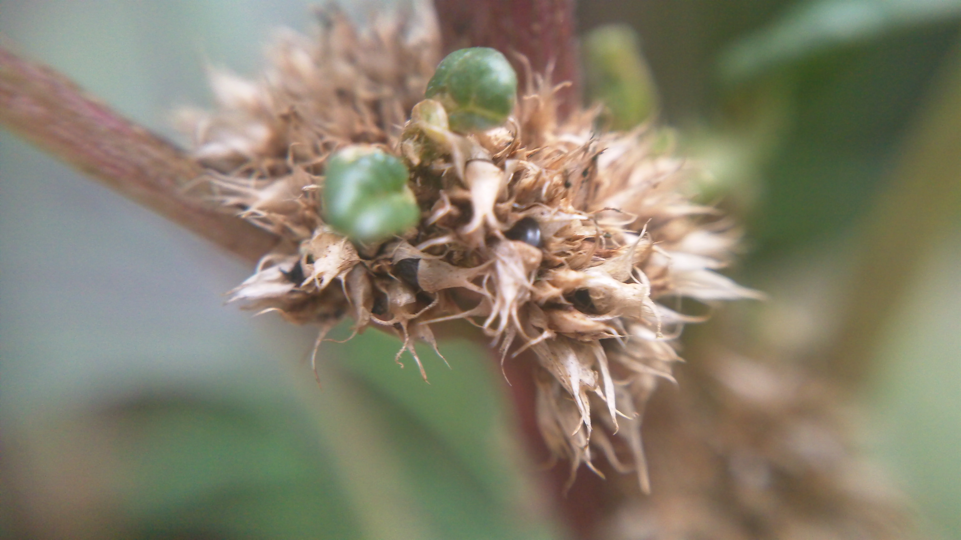 Macro shot of Red Spinach Flower